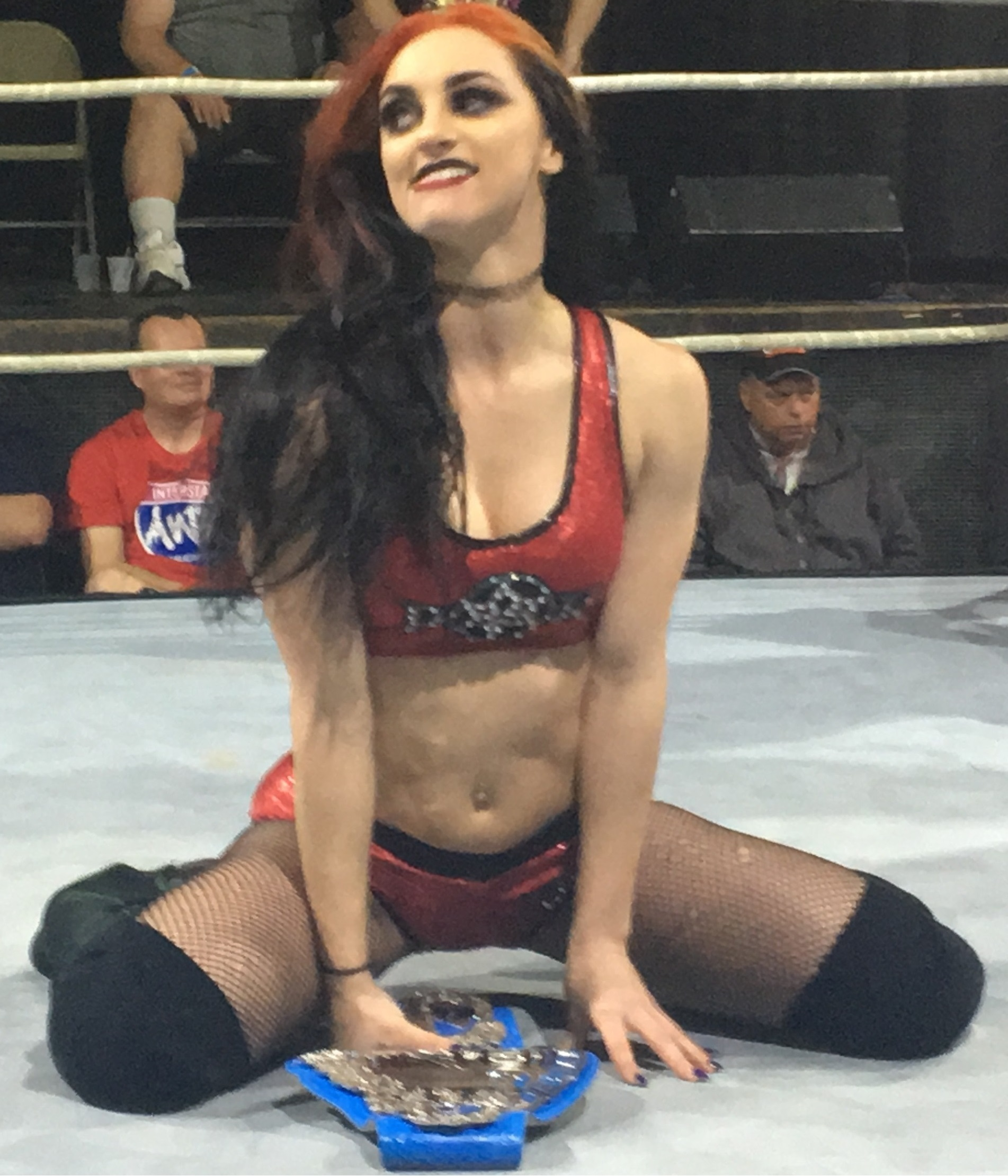 Priscilla Kelly with the Shine Nova Championship